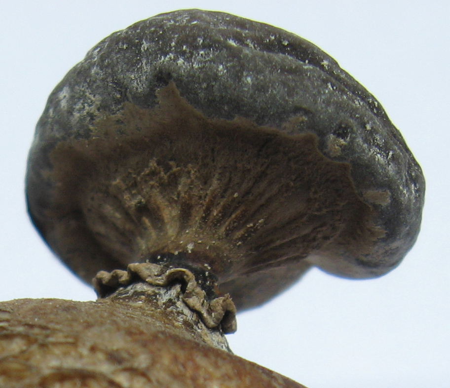 Close-up of the underside of the spore sac of the "beaked earthstar" fungus, species Geastrum pectinatum Pers.